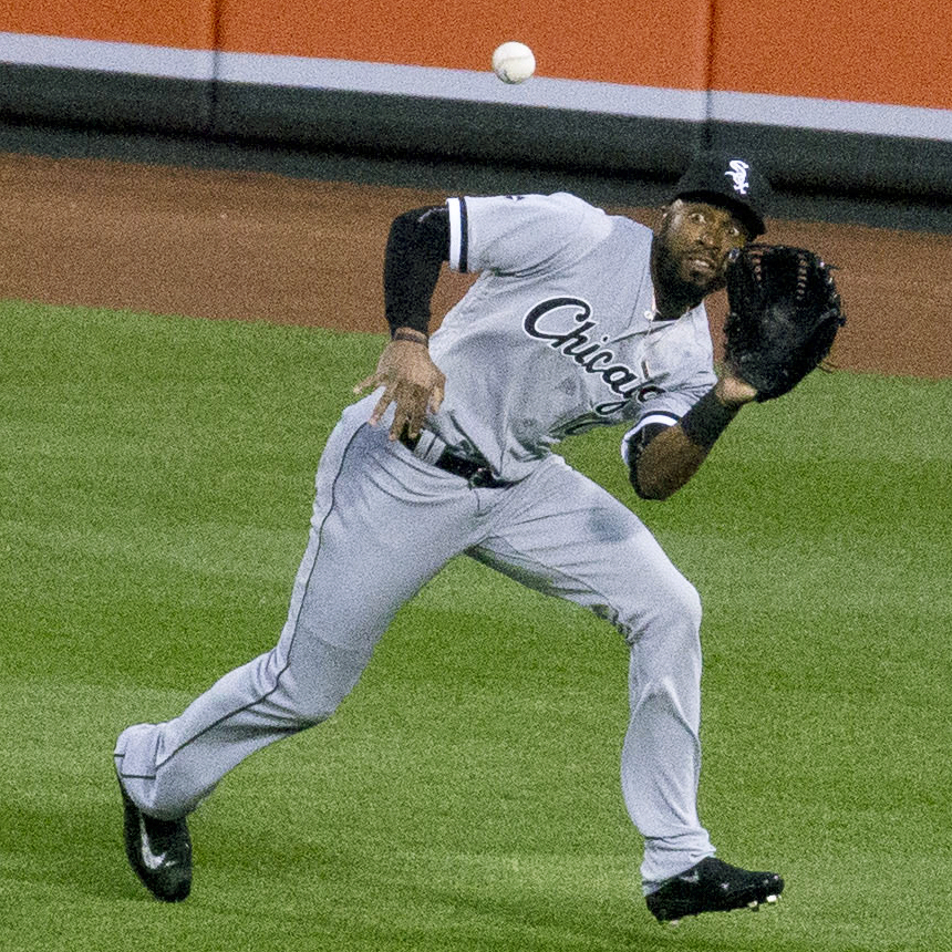 Austin Jackson